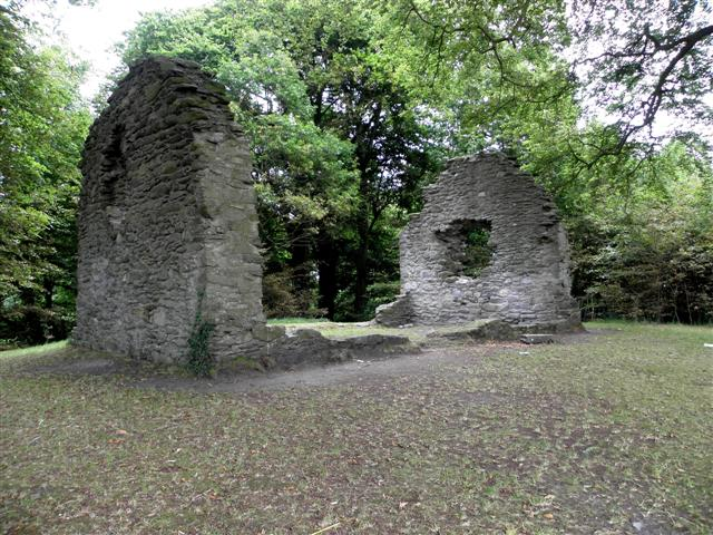 Abbey, St Columb's Park, Derry / Londonderry